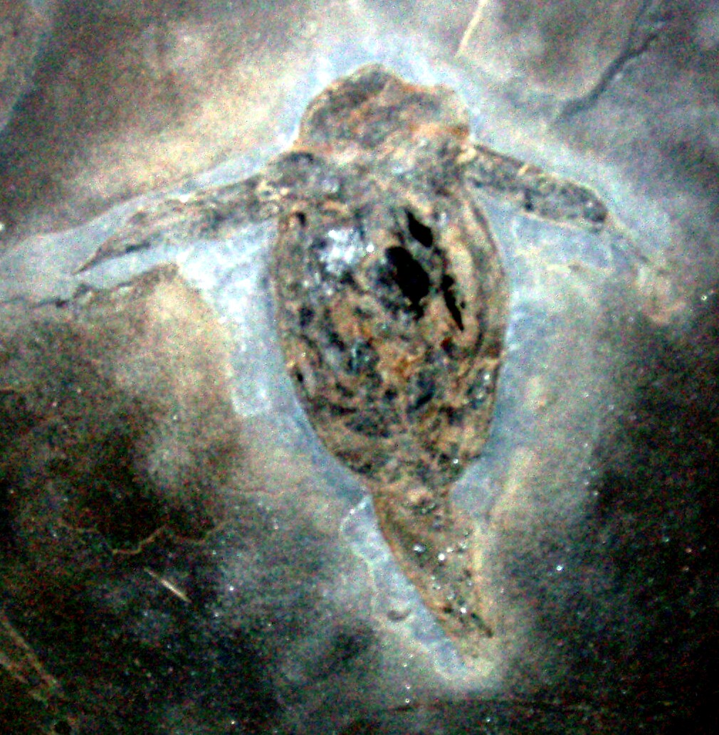 Fossil of Pterichthyodes milleri, an extinct placoderm